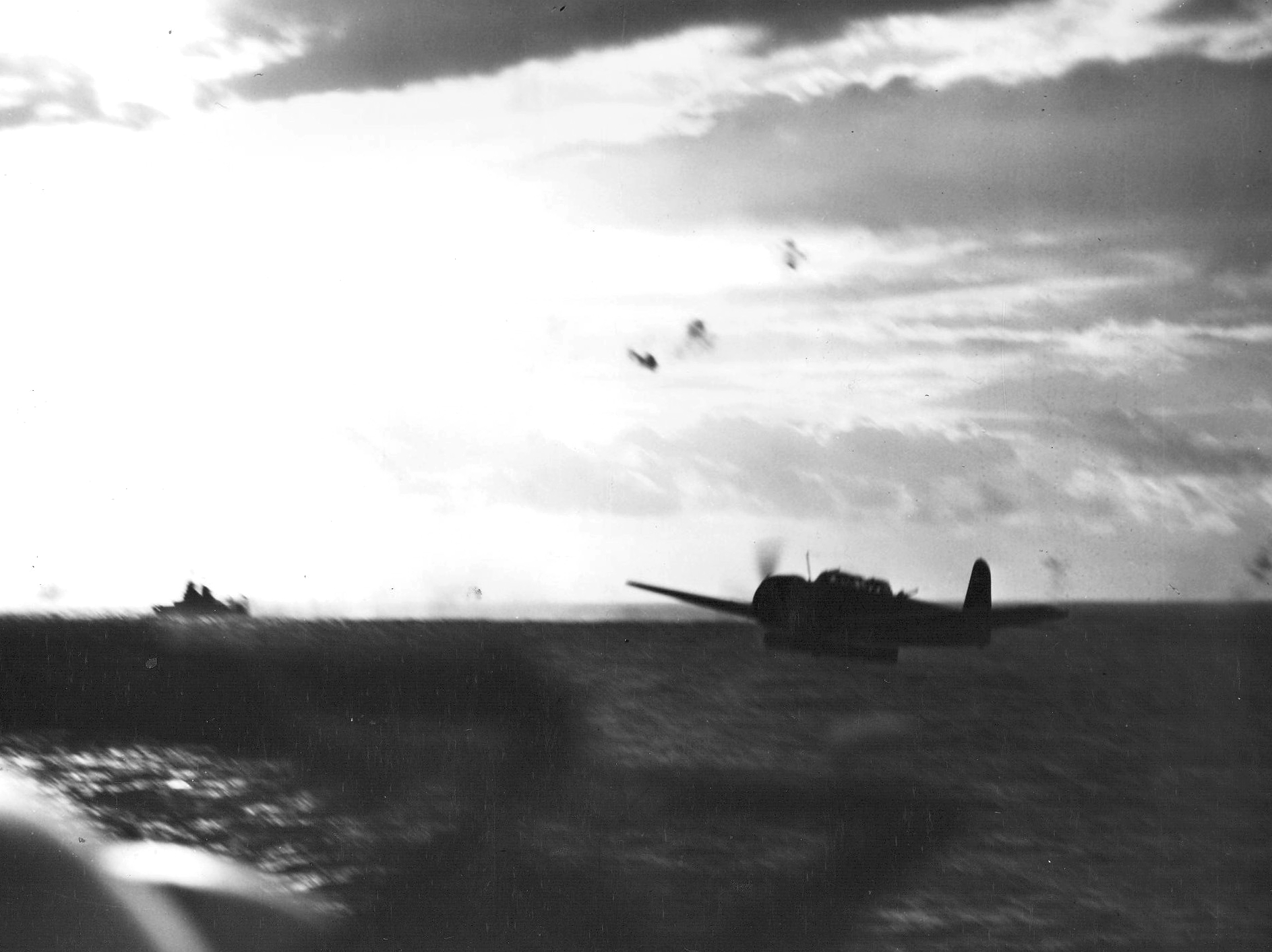 A Japanese Nakajima B6N "Jill" torpedo bomber passing over the bow of the U.S. Navy aircraft carrier USS Yorktown (CV-10) during operations off Truk on 29 April 1944.